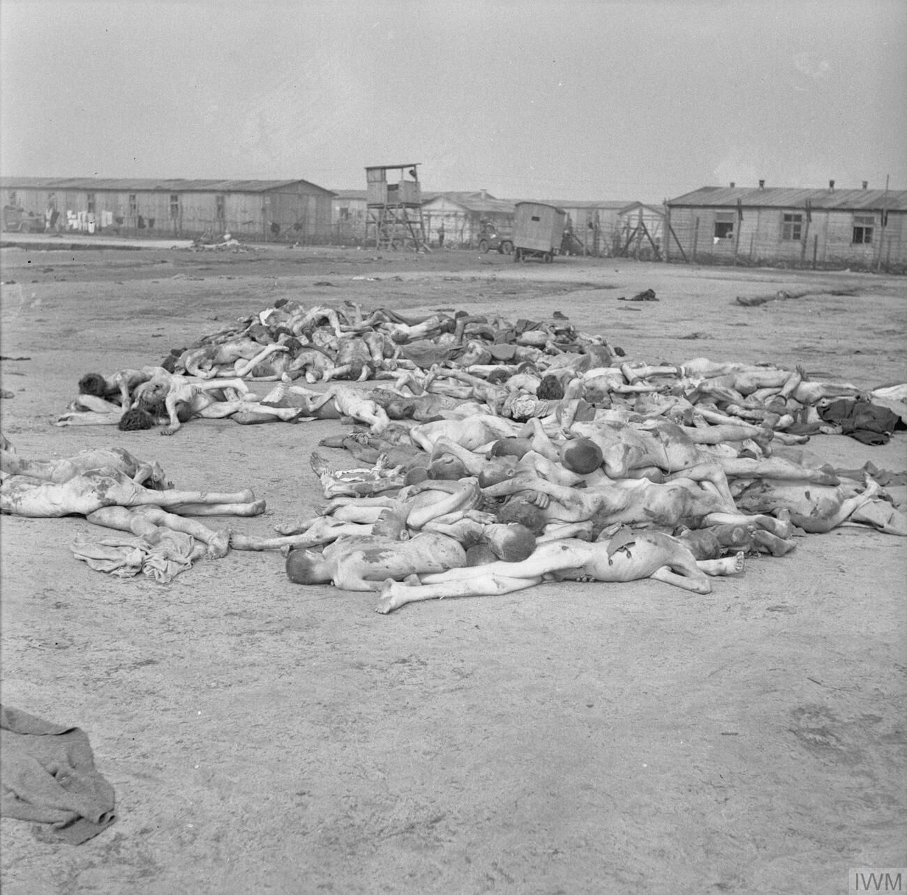 The Liberation of Bergen-belsen Concentration Camp, April 1945 A pile of naked bodies lying in a deserted corner of the camp.